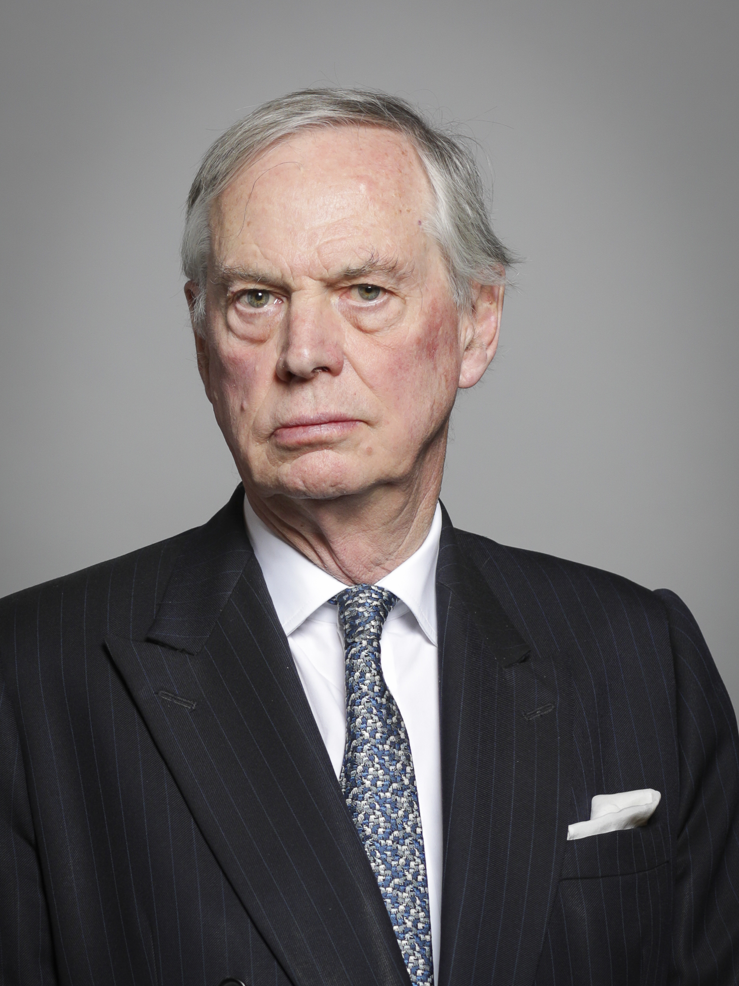 Official portrait of Lord Astor of Hever 3×4 portrait of Lord Astor of Hever